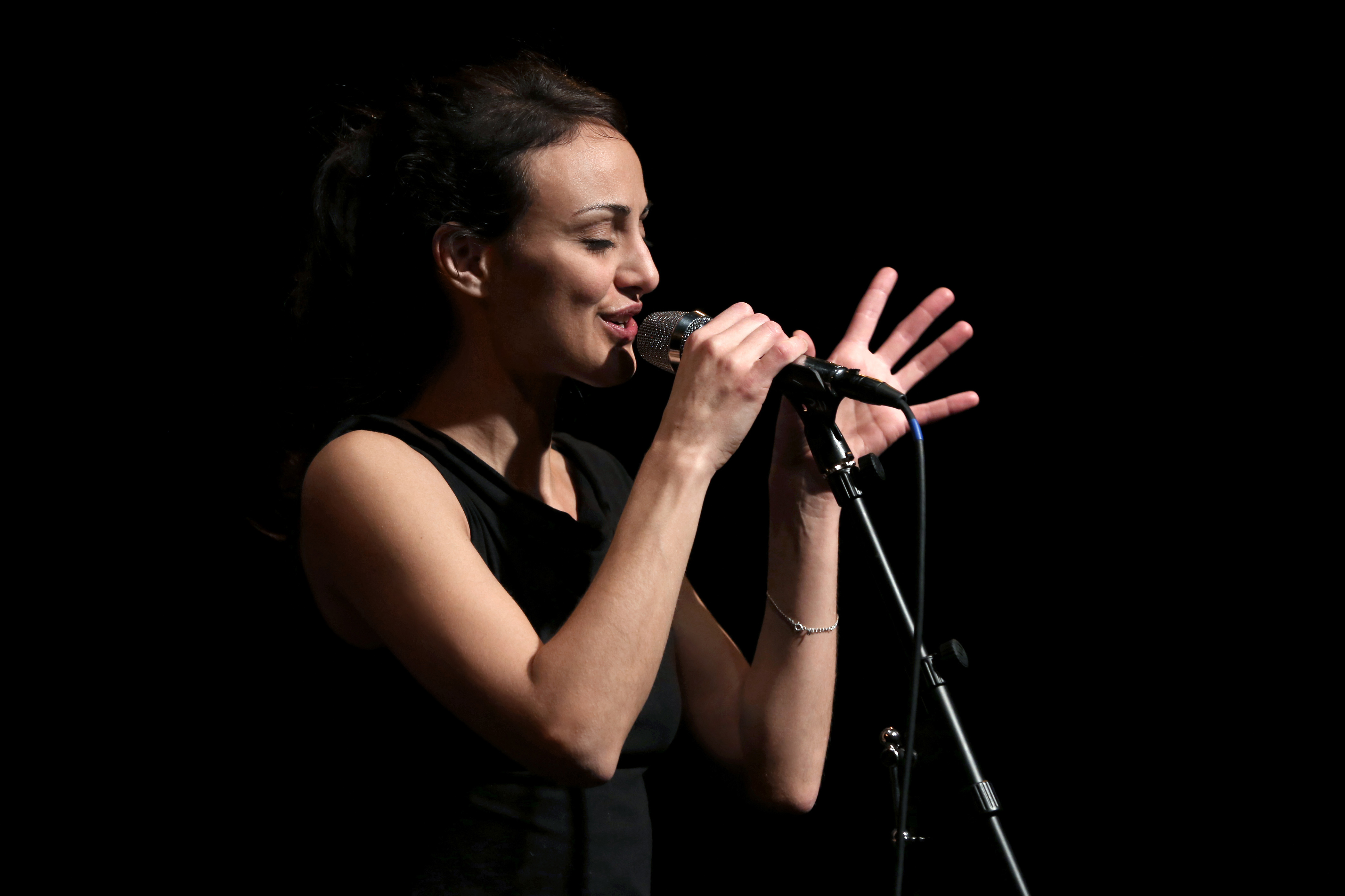 SAEDI with Daniel Kern (git), concert at the theatre at Hundsturm, a stage of the Volkstheater in Vienna, Austria.